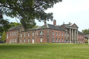 Photograph of Adlington Hall